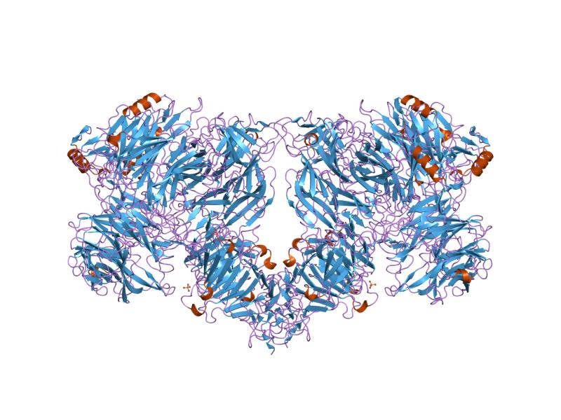 Cartoon representation of the molecular structure of protein registered with 1v0e code.